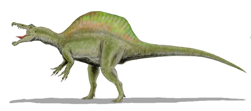 Spinosaurus aegyptiacus, a spinosaurid from the Middle Cretaceous of Egypt